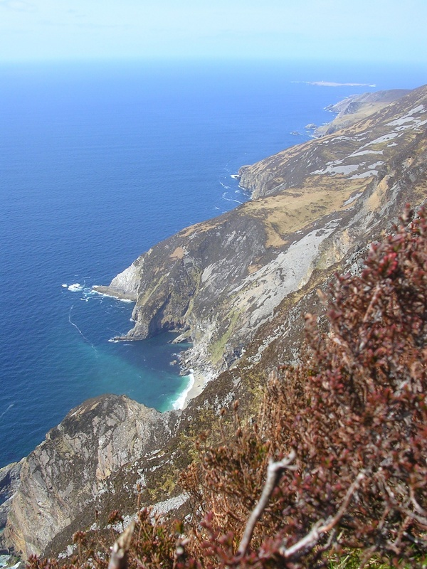 Slieve League cliffs, Slieve League.